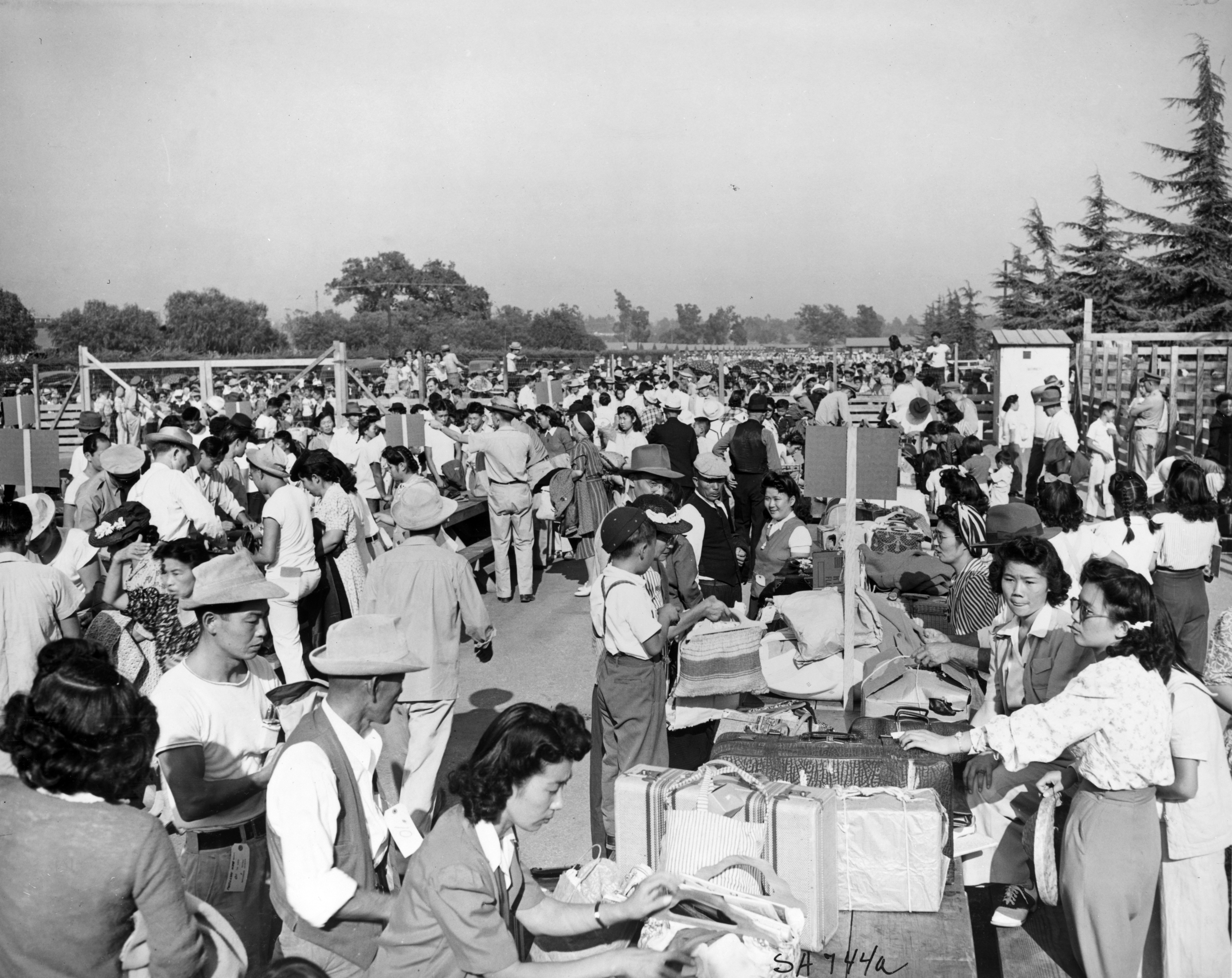 Japanese American families identifying their hand baggage prior to departure from the Assembly Center at Santa Anita, California. Transfer of the evacuees from the Assembly Centers to War Relocation Centers was conducted by the Army. Train lists were made up so that families would not be separated and in most instances groups associated by residence in pre-evacuation days were kept together.